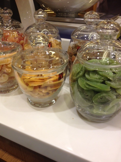 Dried fruits in a shop in Amman